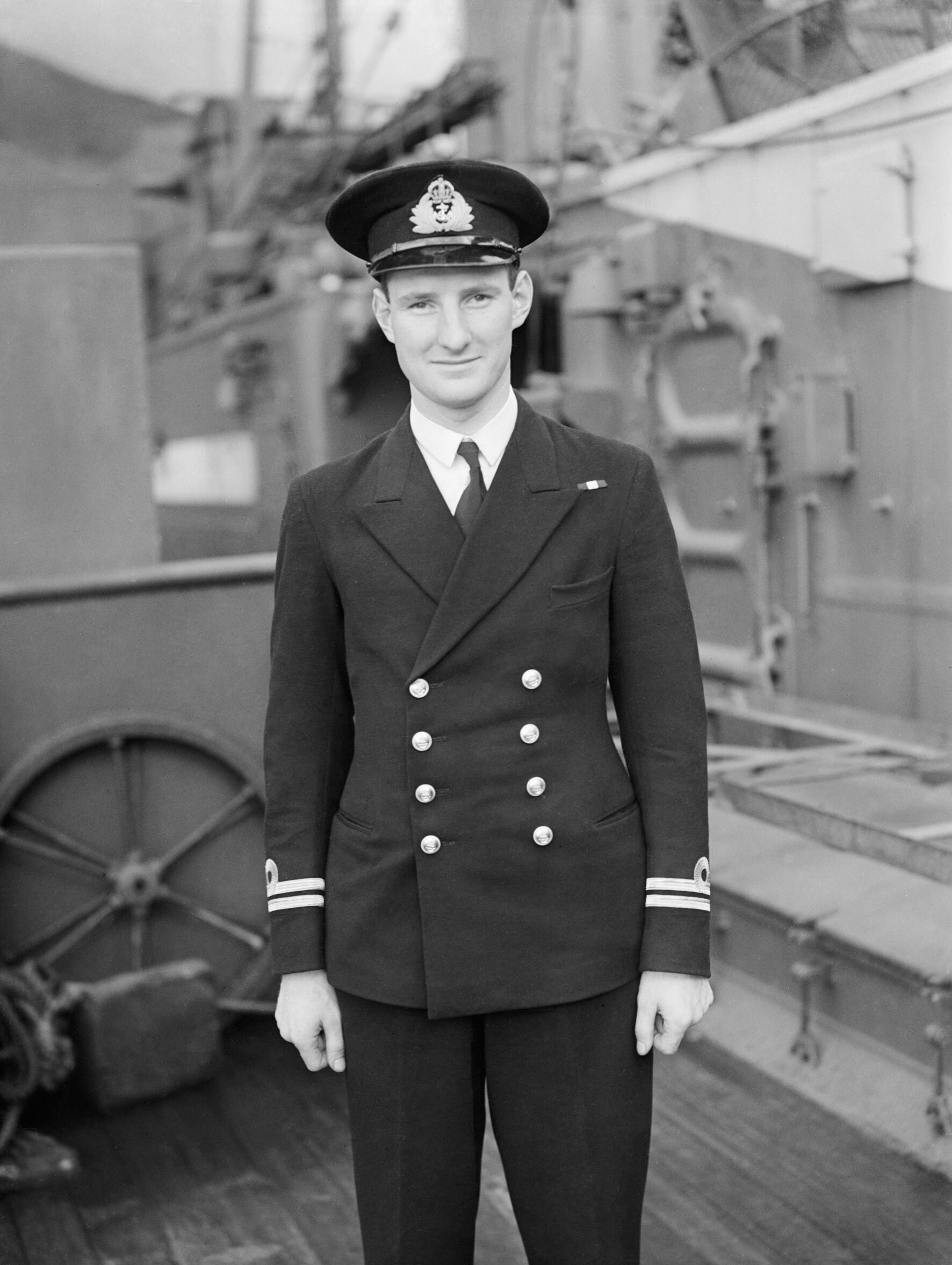 Hm Submarine Venturer, Latest Submarine To Be Commissioned. 20 August 1943, Holy Loch. Lieut J S Launders, DSC, RN, Commanding Officer of HM Submarine VENTURER.